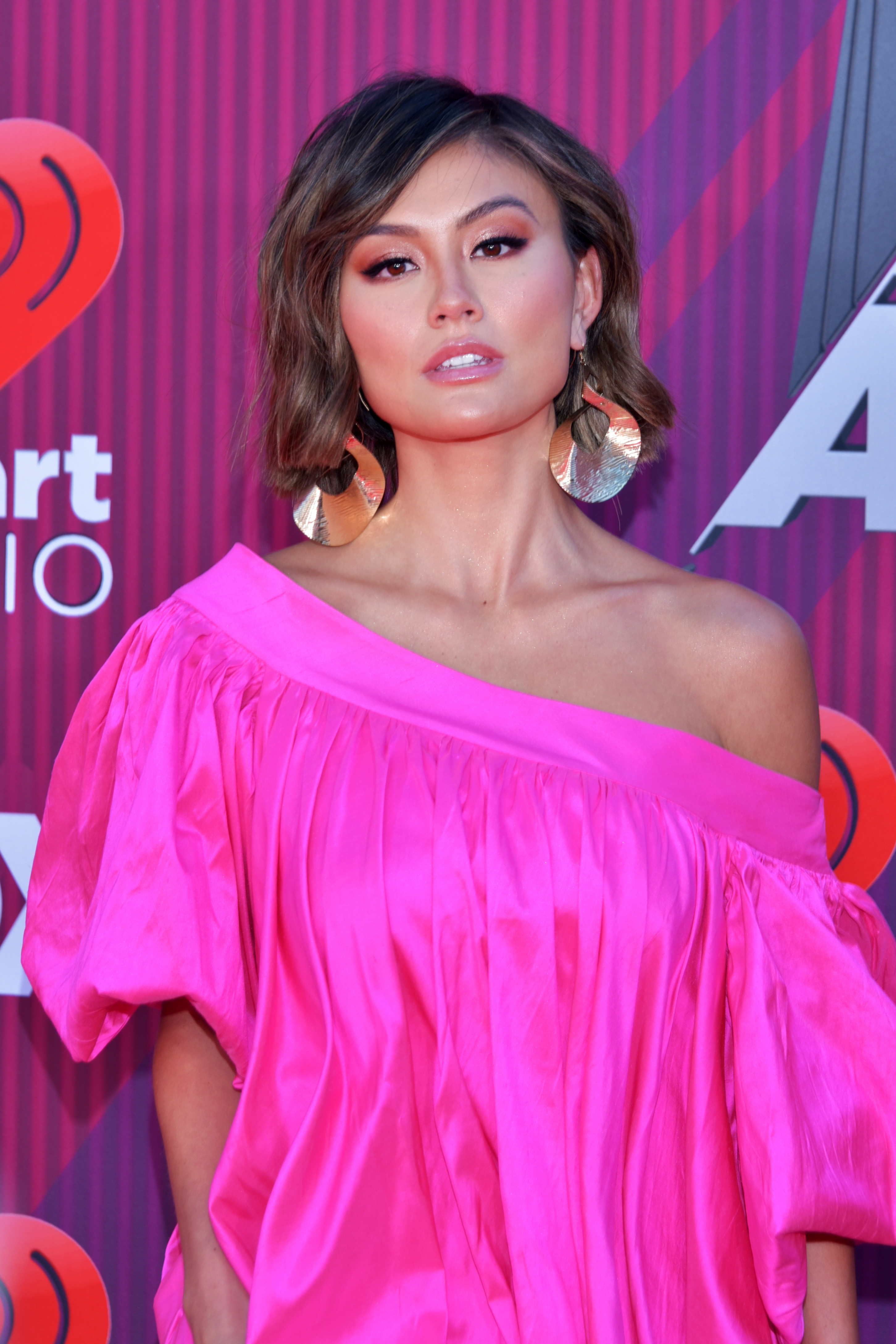 Agnez Mo attends the 2019 iHeartRadio Music Awards in Los Angeles, California - Photo by Glenn Francis of